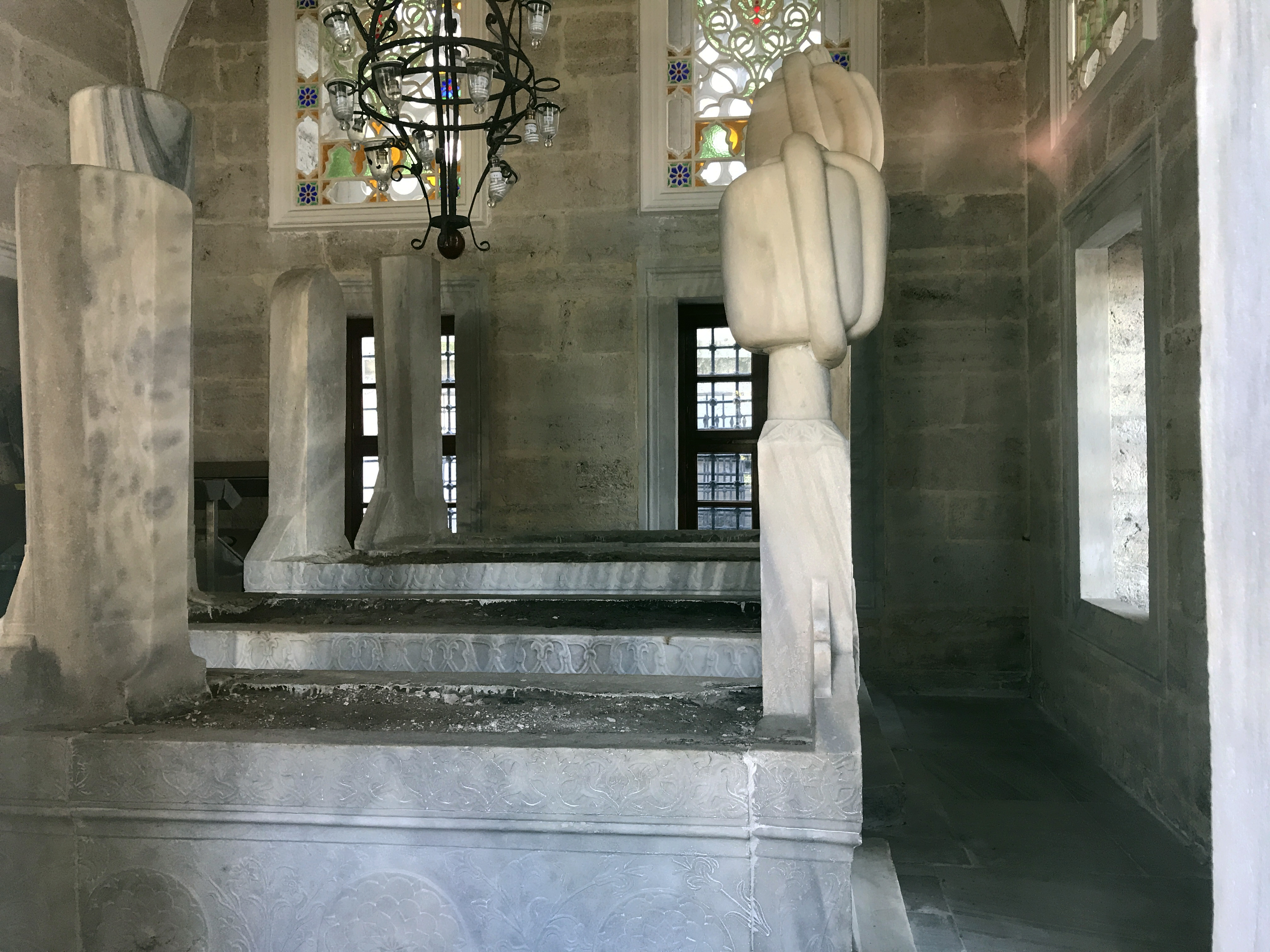 Mihrimah Sultan Mosque (built 1548), is an Ottoman mosque located in the historic center of the Üsküdar municipality in Istanbul, Turkey. It is the first of two mosques built by Mihrimah Sultan, daughter of Sultan Suleiman the Magnificent and wife of Grand Vizier Rüstem Pasha. It was designed by Mimar Sinan and built between 1546 and 1548.